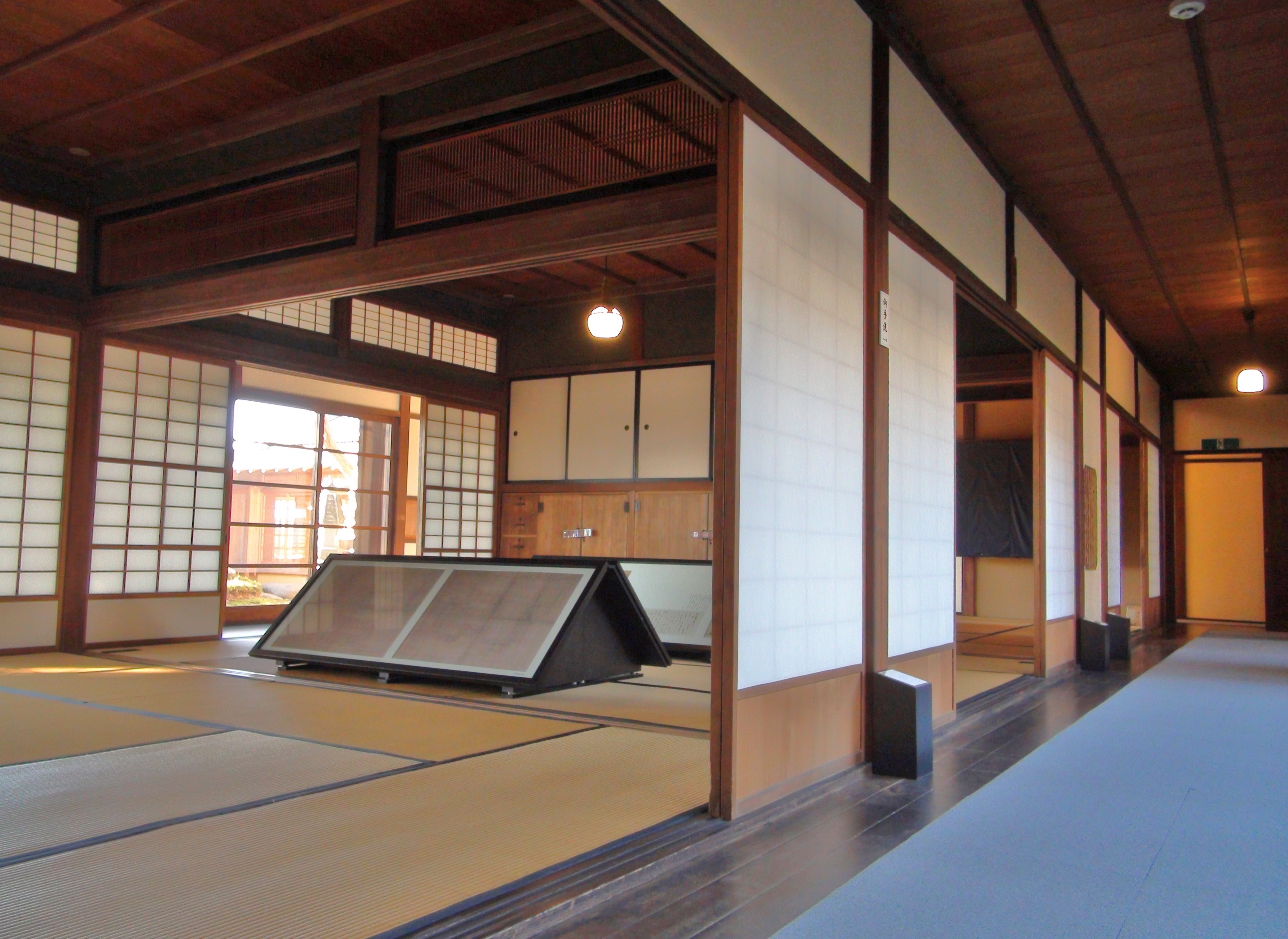 Nezu Memorial Museum Room